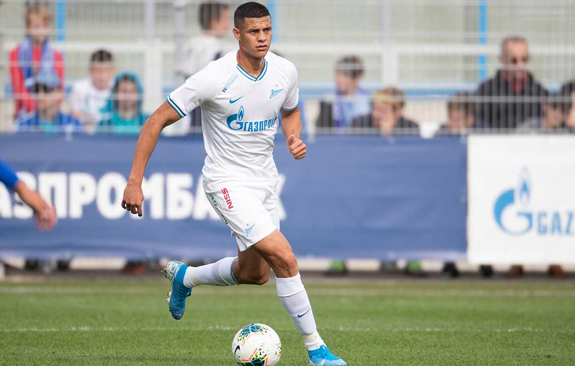 Yordan Osorio during Friendly match against PFC Sochi, 8 September 2019